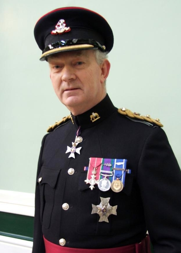 Major-General Sir Evelyn John Webb-Carter KCVO OBE